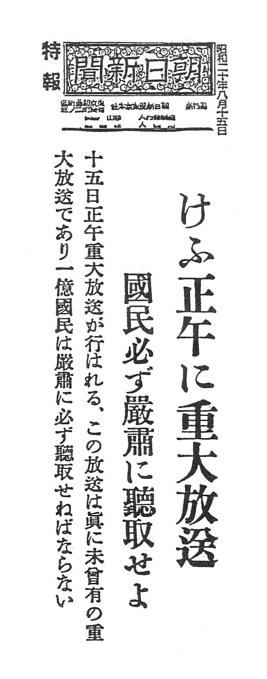 Asahi Shimbun Extra Edition newspaper clipping (15 April 1945 issue)